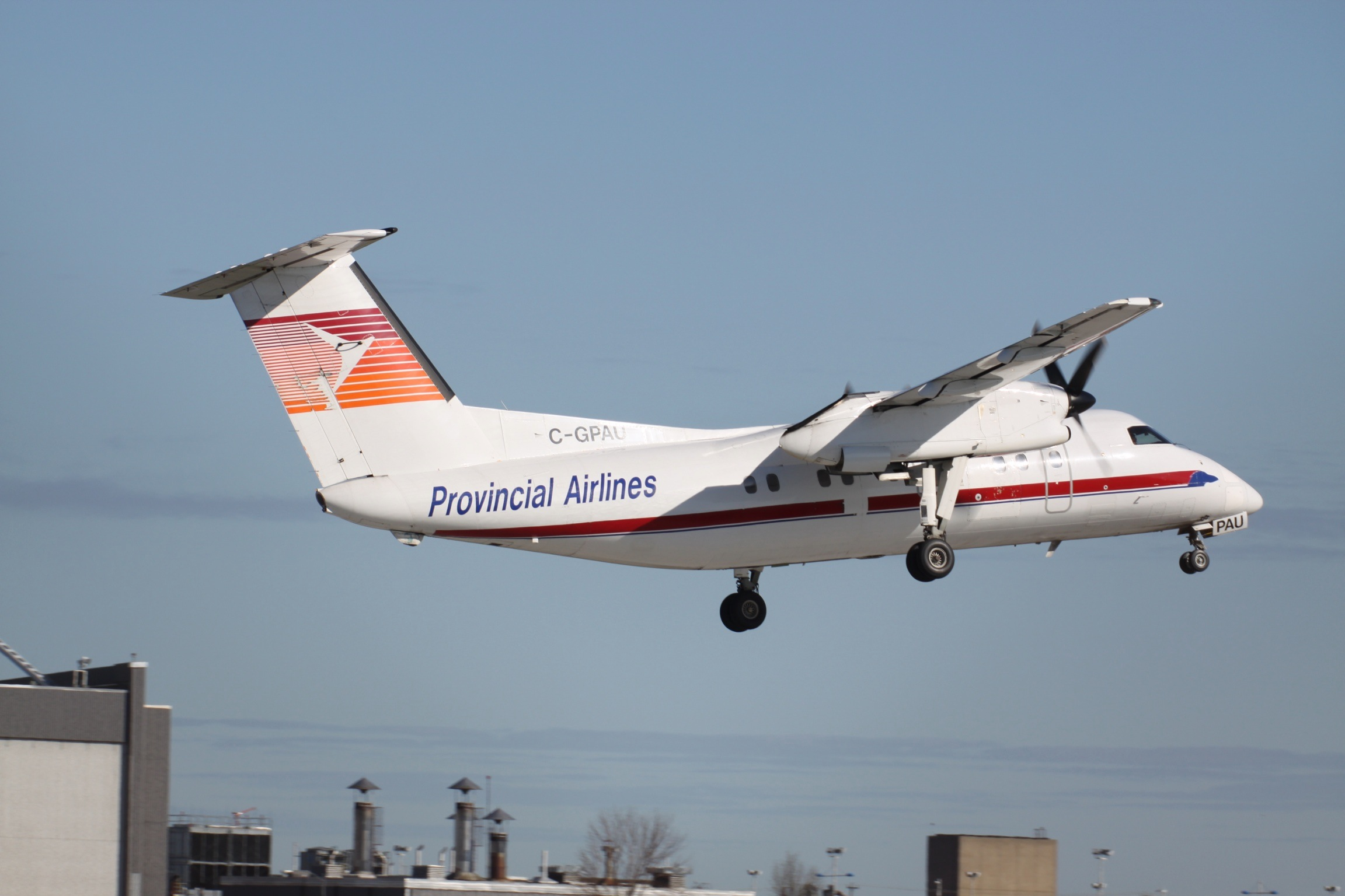 At Montréal-Pierre Elliott Trudeau International